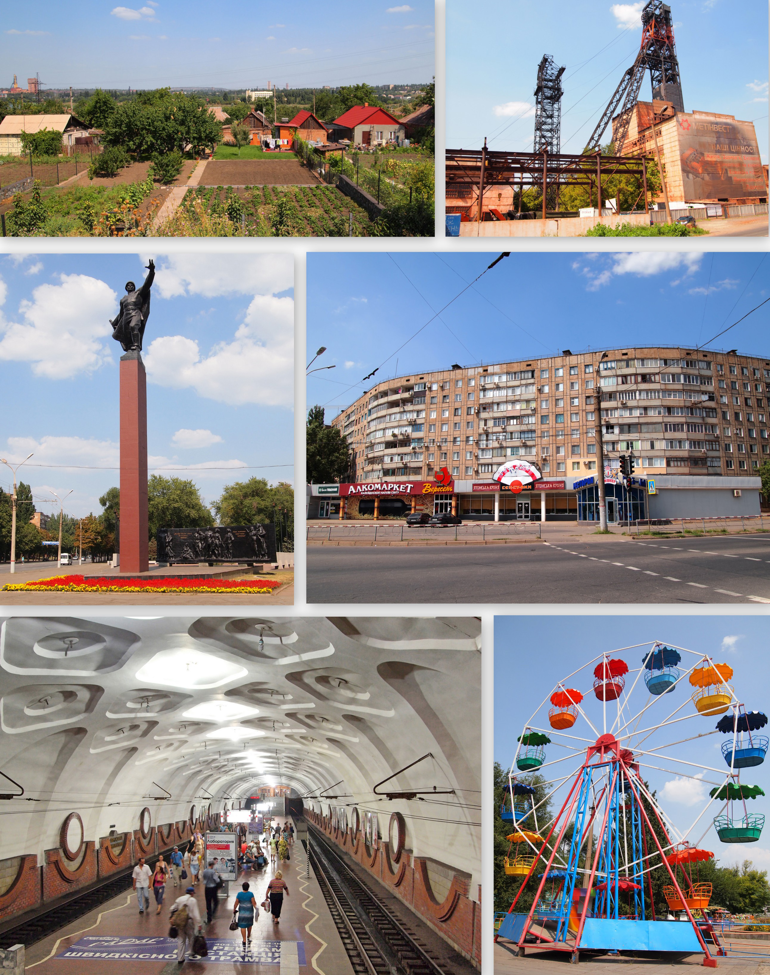 Collage of the pictures of Kryvyi Rih.